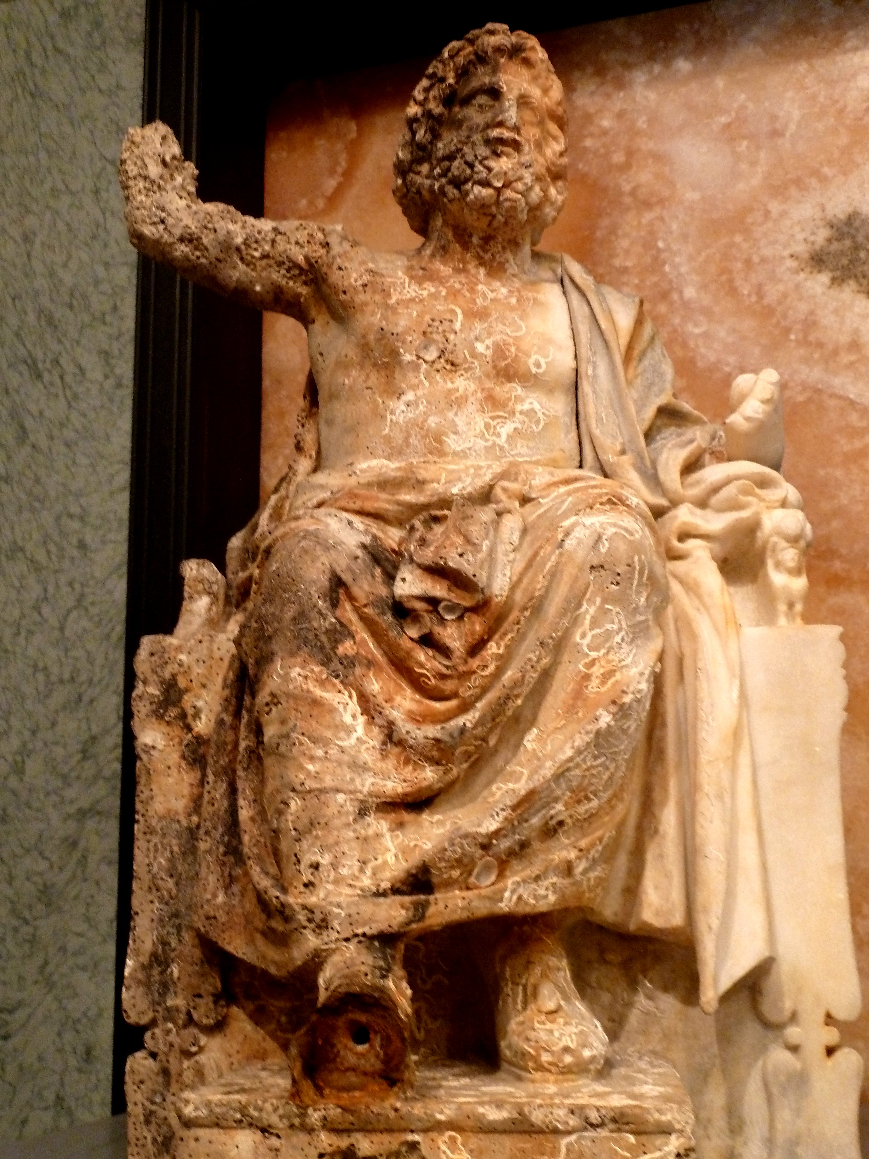 Enthroned Zeus (Greek, c. 100 BC) - modeled after the Olympian Zeus by Pheidas (c. 430 BC), one of the Seven Wonders of the World. He originally would have had a thunderbolt in his right hand, a scepter in his left. The statue was clearly in the sea for some time; the less-damaged portion to the right was protected in the sand.